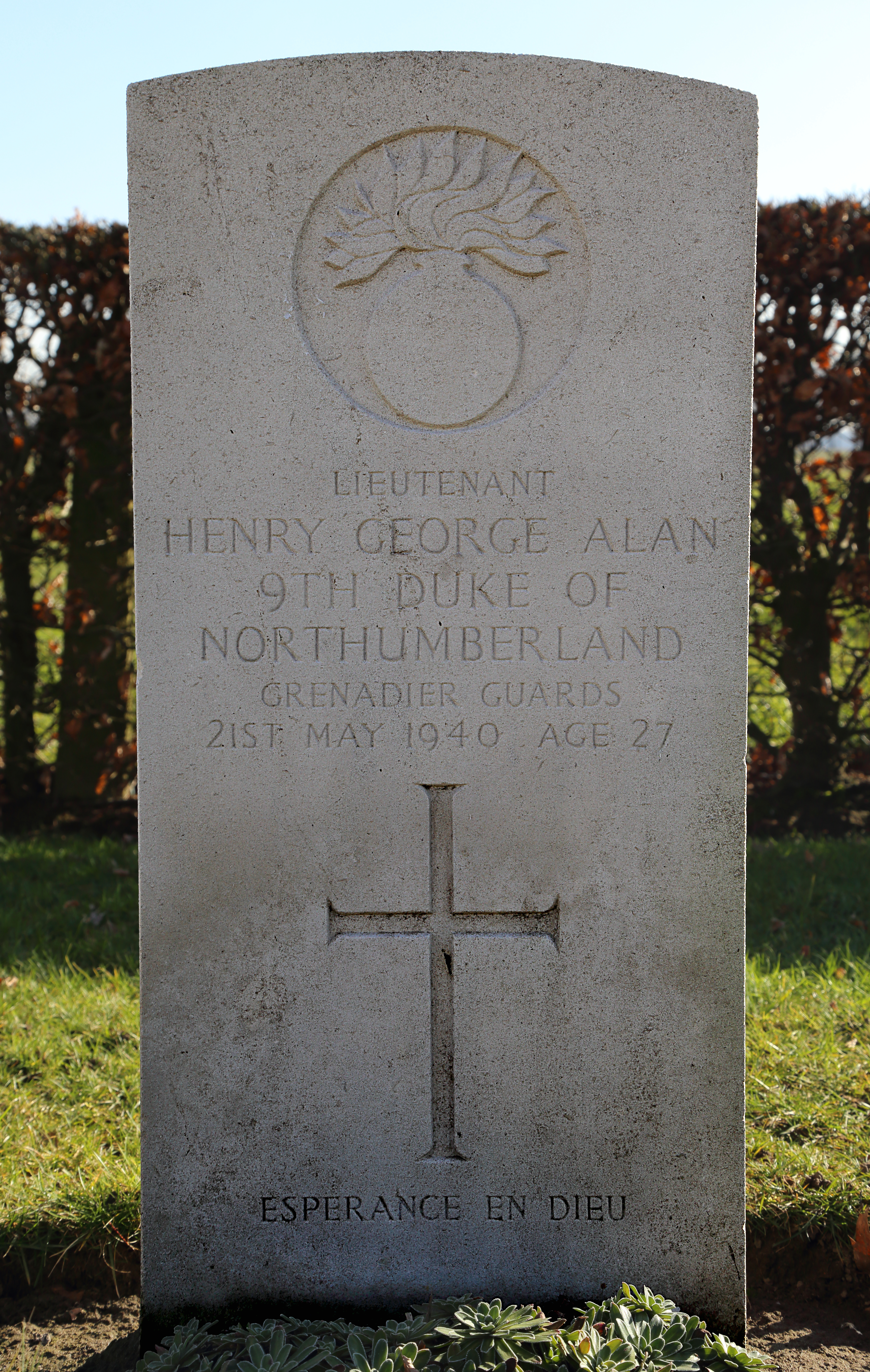 Grave of Henry Percy, 9th Duke of Northumberland in the war cemetery of Esquelmes, Belgium.